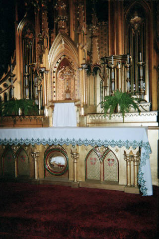 The main altar of Saint Mary's Church, Dubuque. I took this picture in June of 2003.